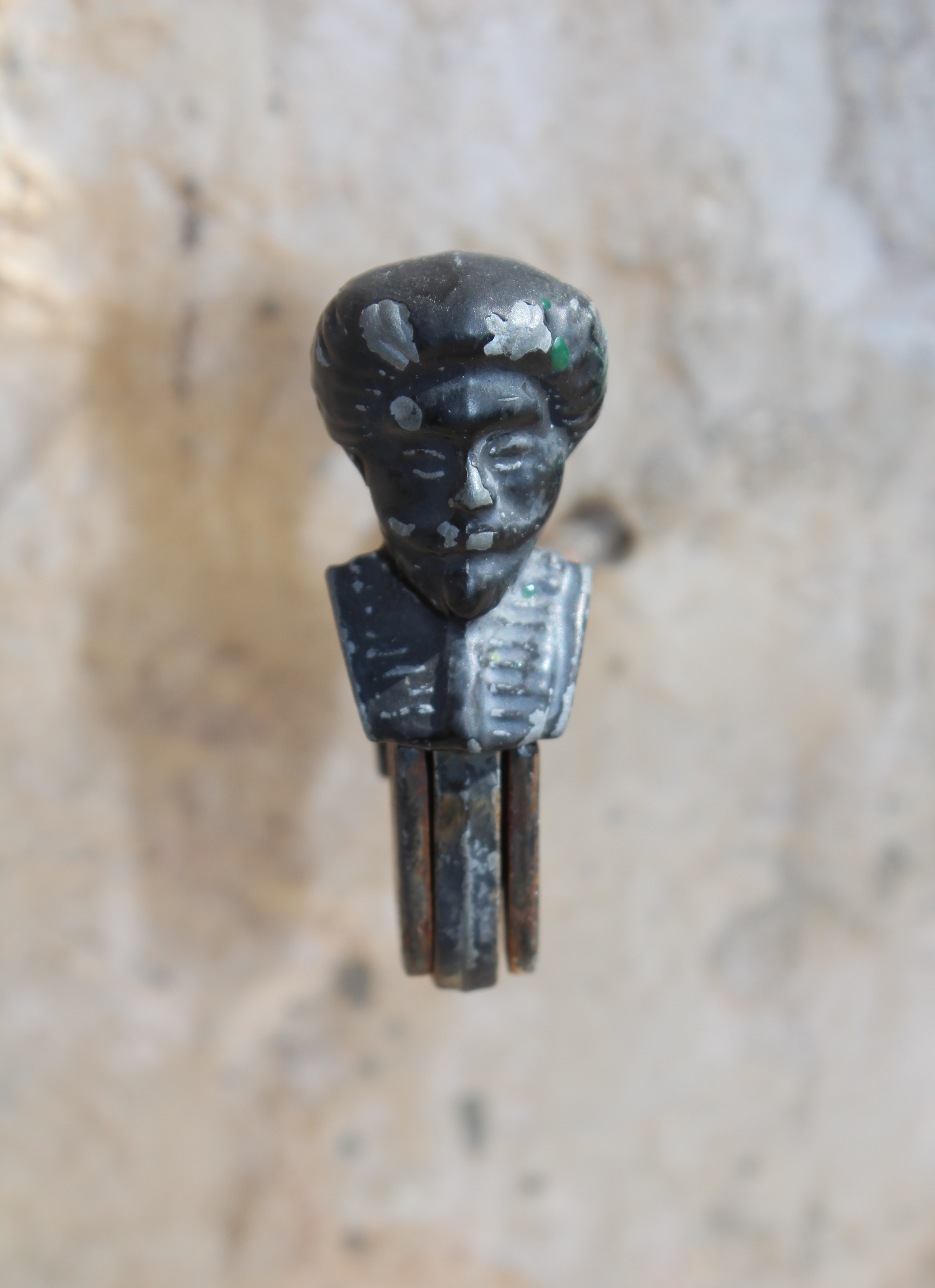 Templar Communal Home, The German Colony, Haifa 63″ N, 34° 59′ 31.85″ E